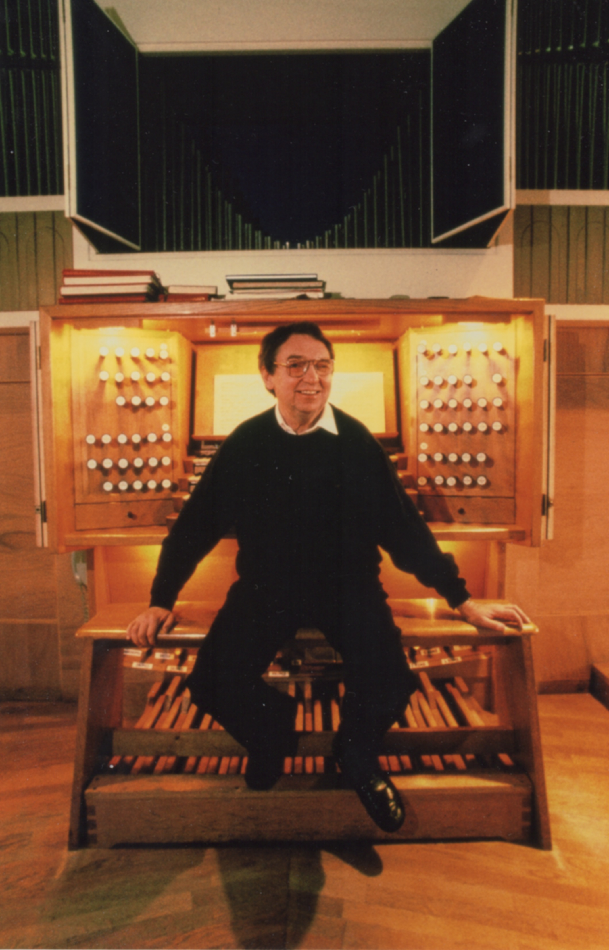 Bengt Berg, organ player